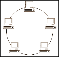 रिंग टोपोलॉजी (Ring Topology)